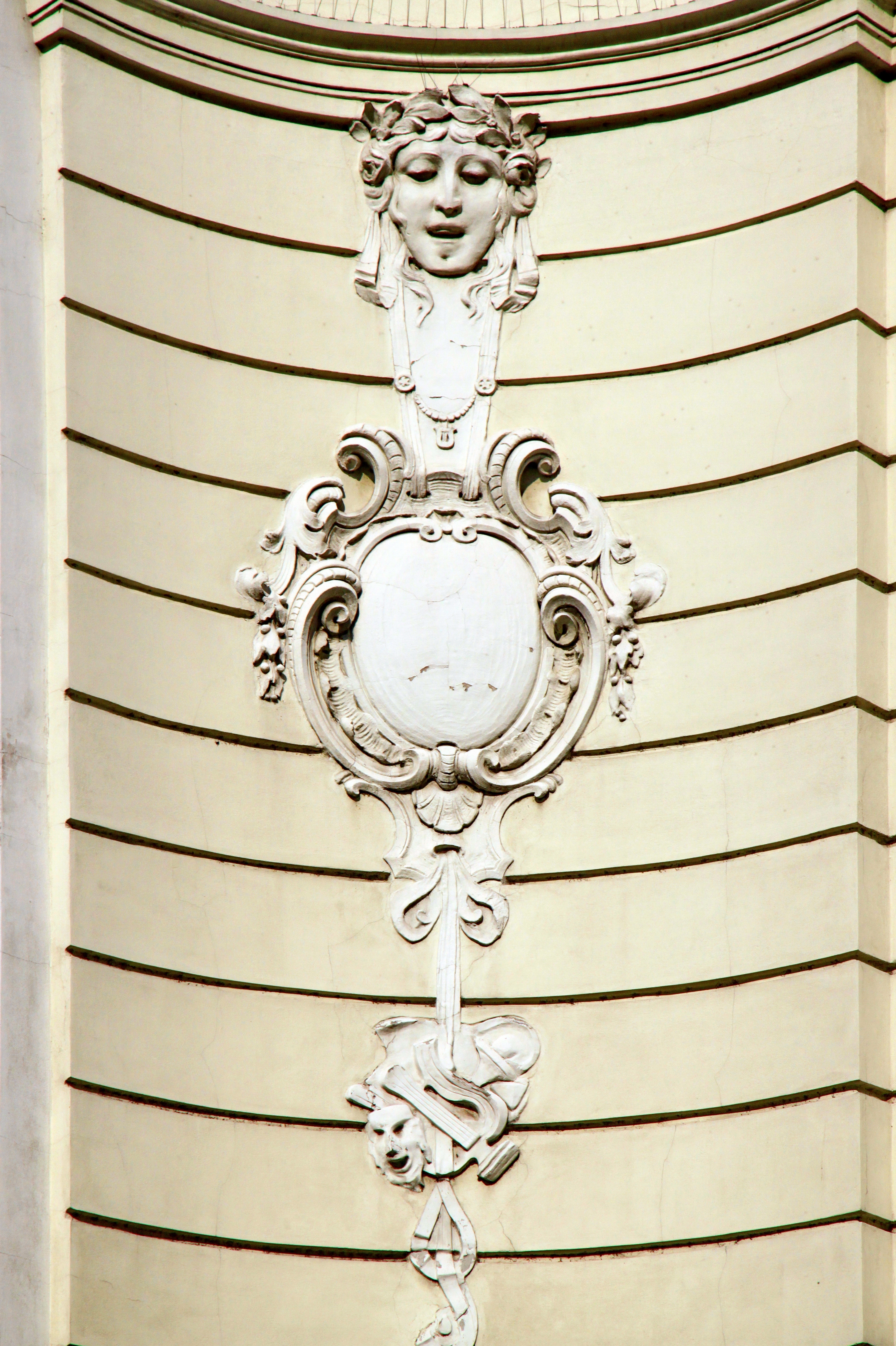 Cieszyn, former German Theatre, now Adam Mickiewicz Theatre, build in 1910